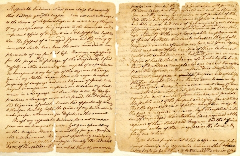 The handwritten draft of the Reverend Jacob Rutsen Hardenbergh's 1774 Queen's College commencement address, this first graduating class at Queen's (now Rutgers University). Hardenbergh would become the school's first president. In the collection of Special Collections and University Archives, at Rutgers University's Alexander Library in New Brunswick, New Jersey (USA) This image is a two-dimensional (2D) scan or photograph of the a work that is in the public domain due to its age (1774). Therefore, it is not eligible for copyright protection, pursuant to Bridgeman Art Library v. Corel Corp., 36 F. Supp. 2d 191 (S.D.N.Y. 1999).